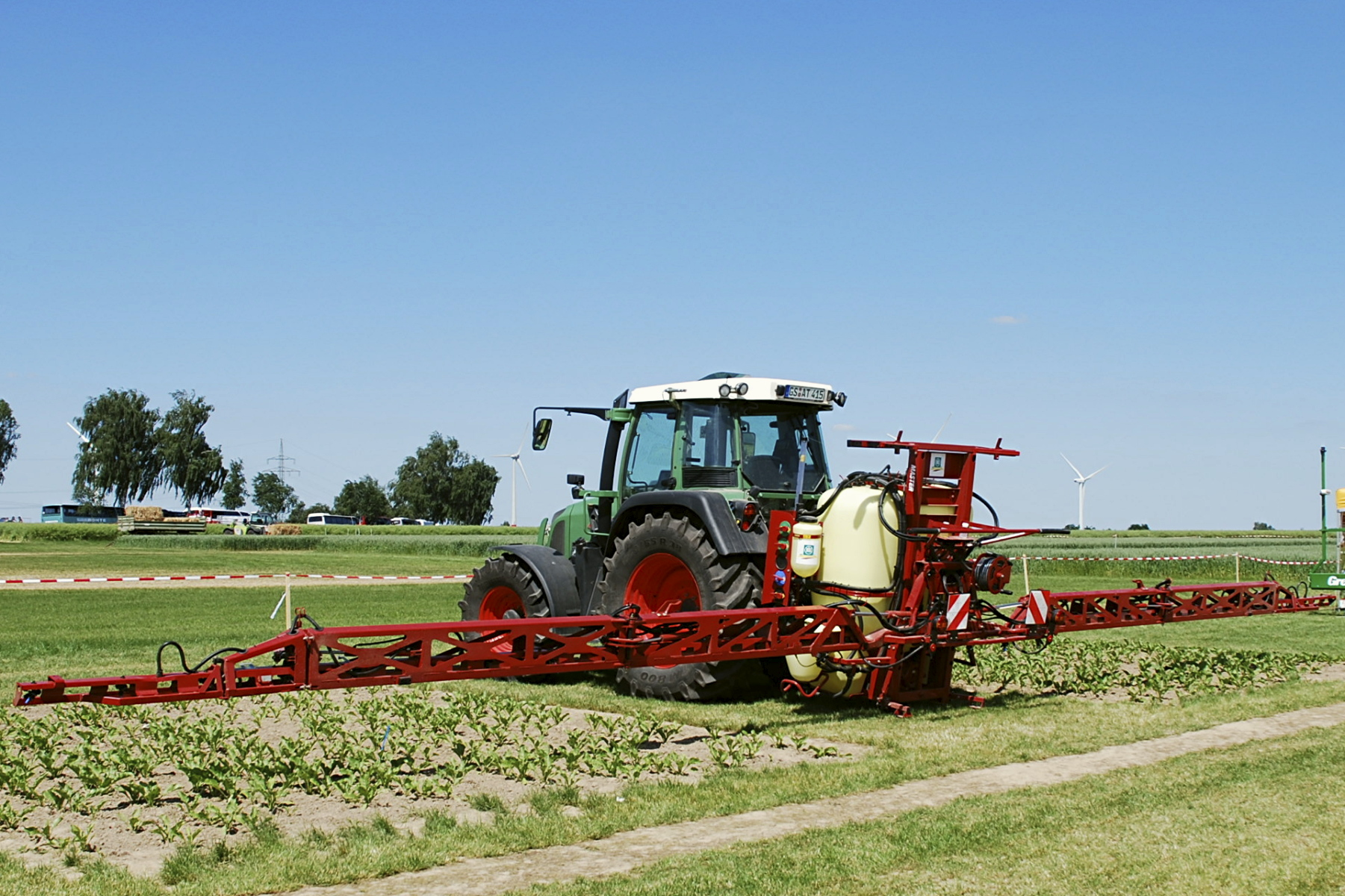 Hardi Master field sprayer mounted on a Fendt 415 Vario TMS tractor; DLG field days 2010, Gut Bockerode, Springe-Mittelrode, Lower Saxony, Germany.